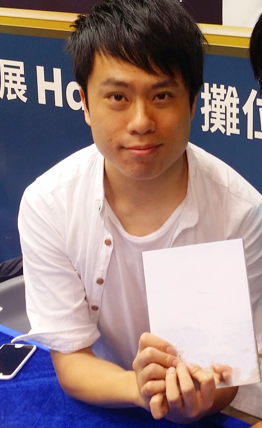 Hong Kong politician and novelist Roy Kwong in Hong Kong Book Fair 2017